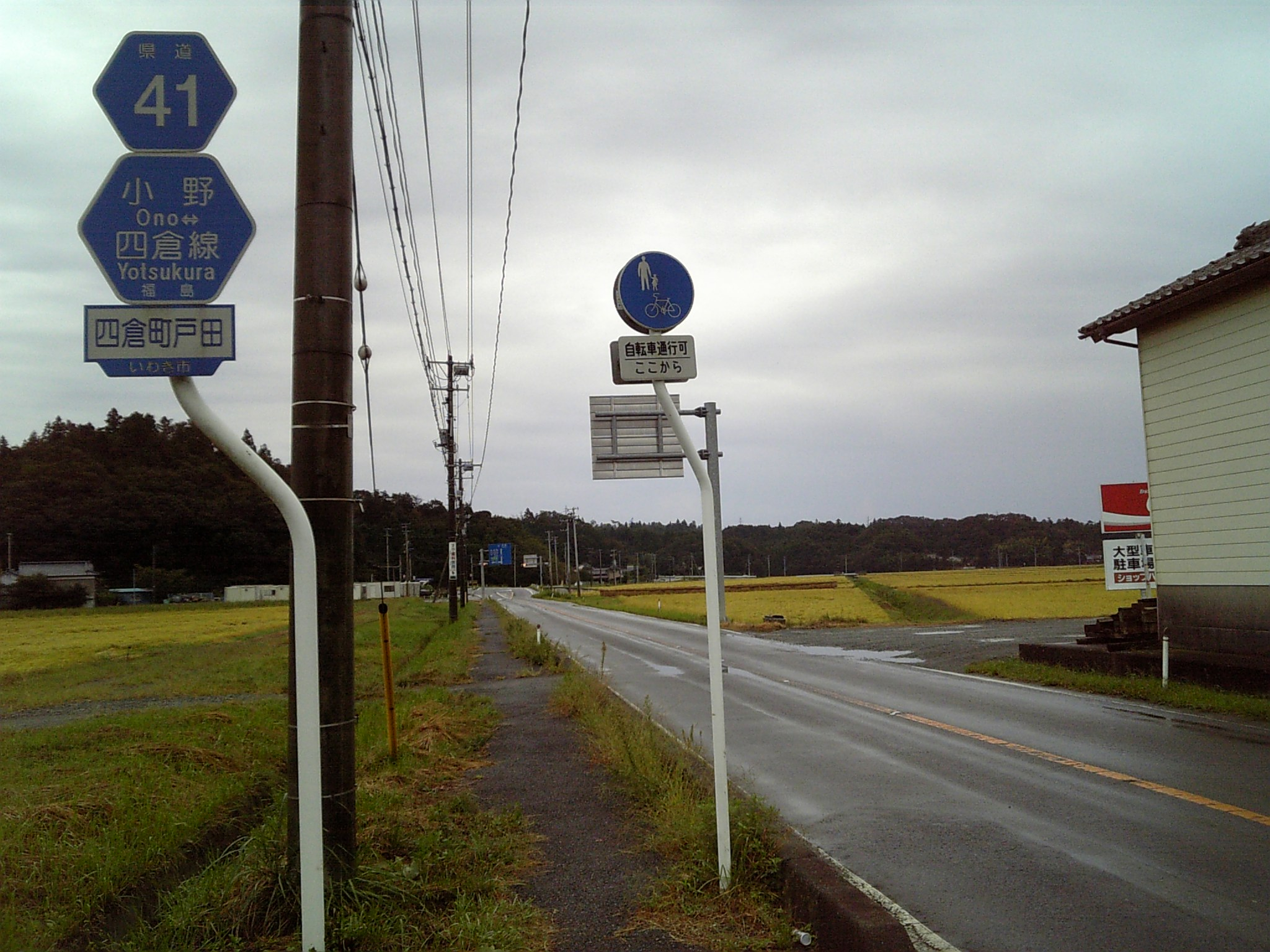 The Fukushima Prefectural Road Route 41 in Yotsukuramachi Toda, Iwaki City